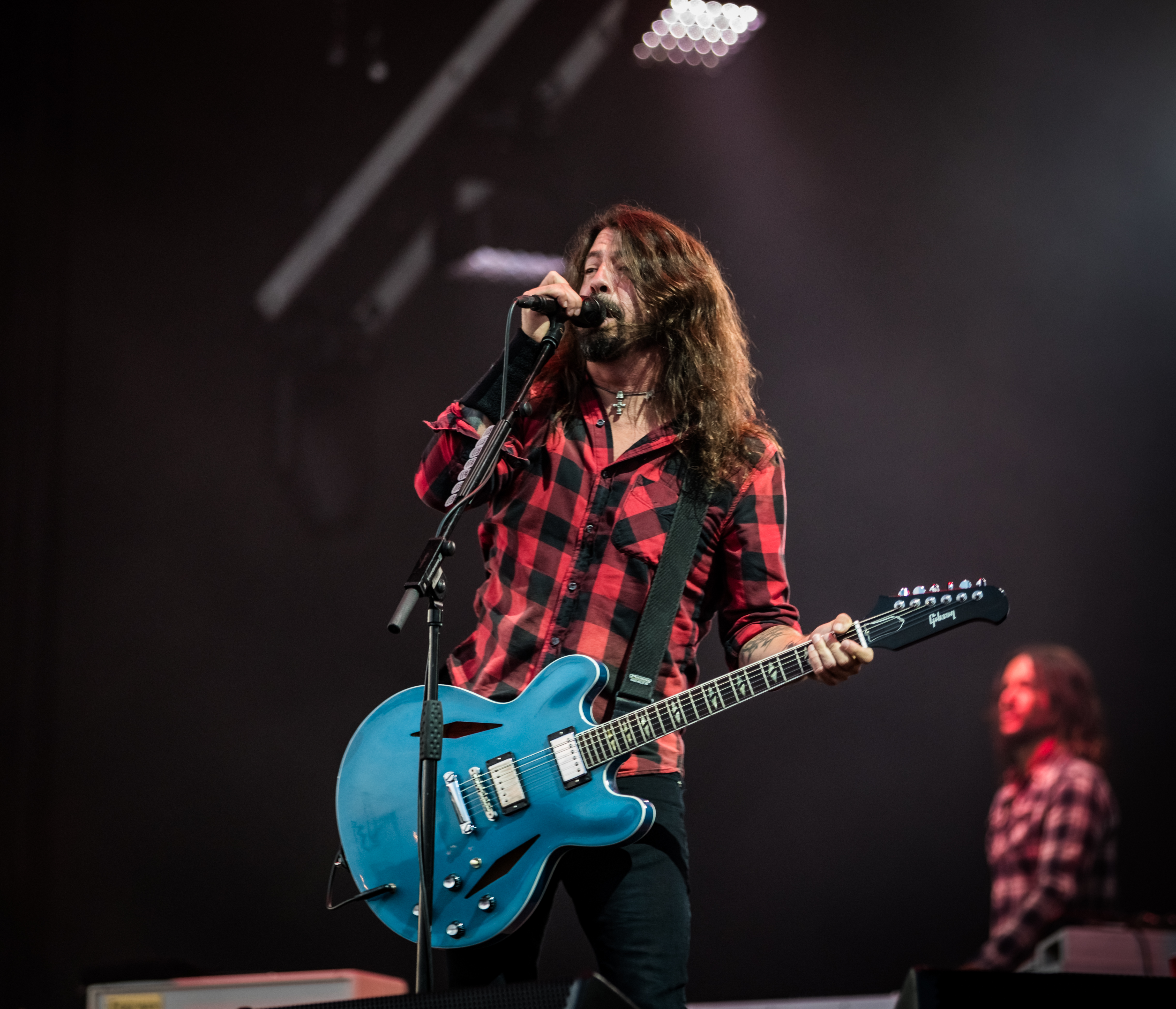 Foo Fighters - Rock am Ring 2018